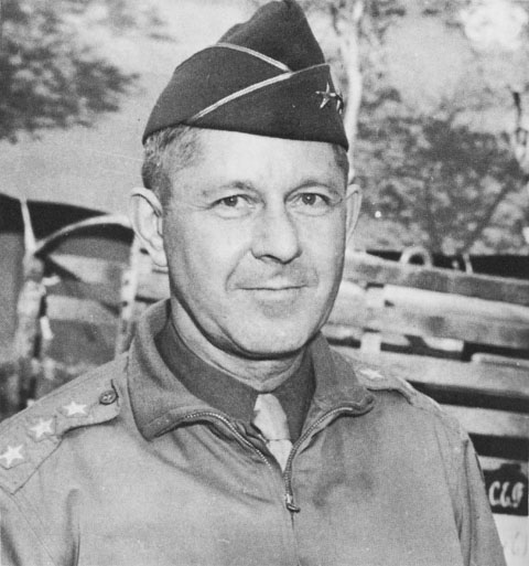 Lieutenant General Jacob L. Devers